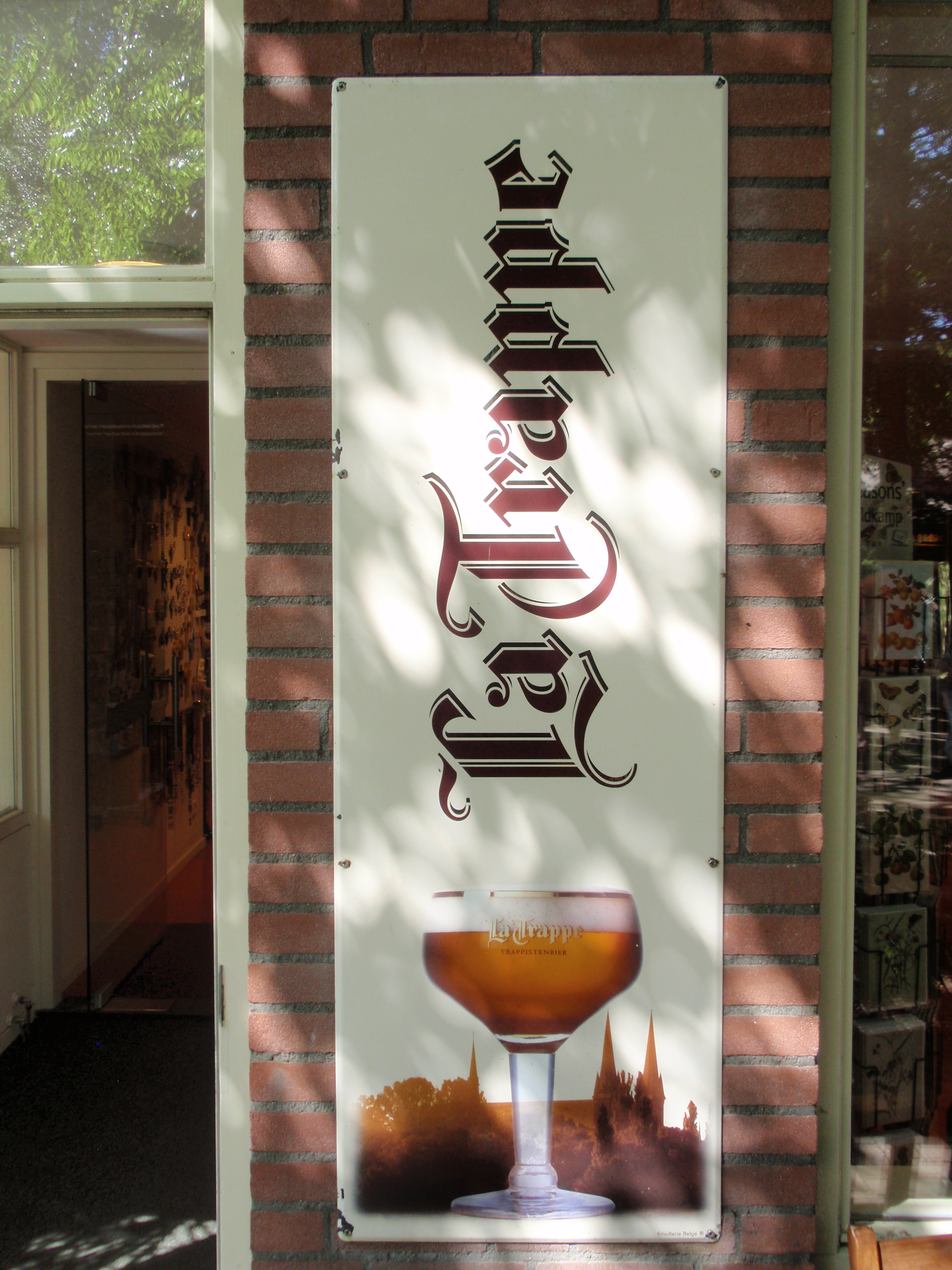 Special Dutch beer, La Trappe